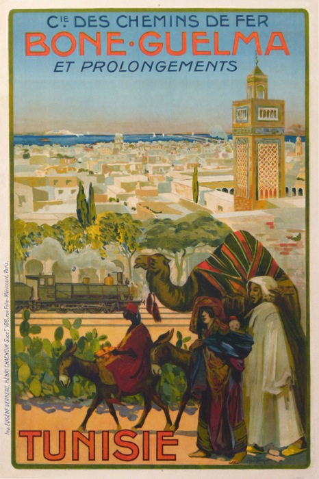 Affiche Chemin de fer de Bône-Guelma et prolongements (Tunisie)